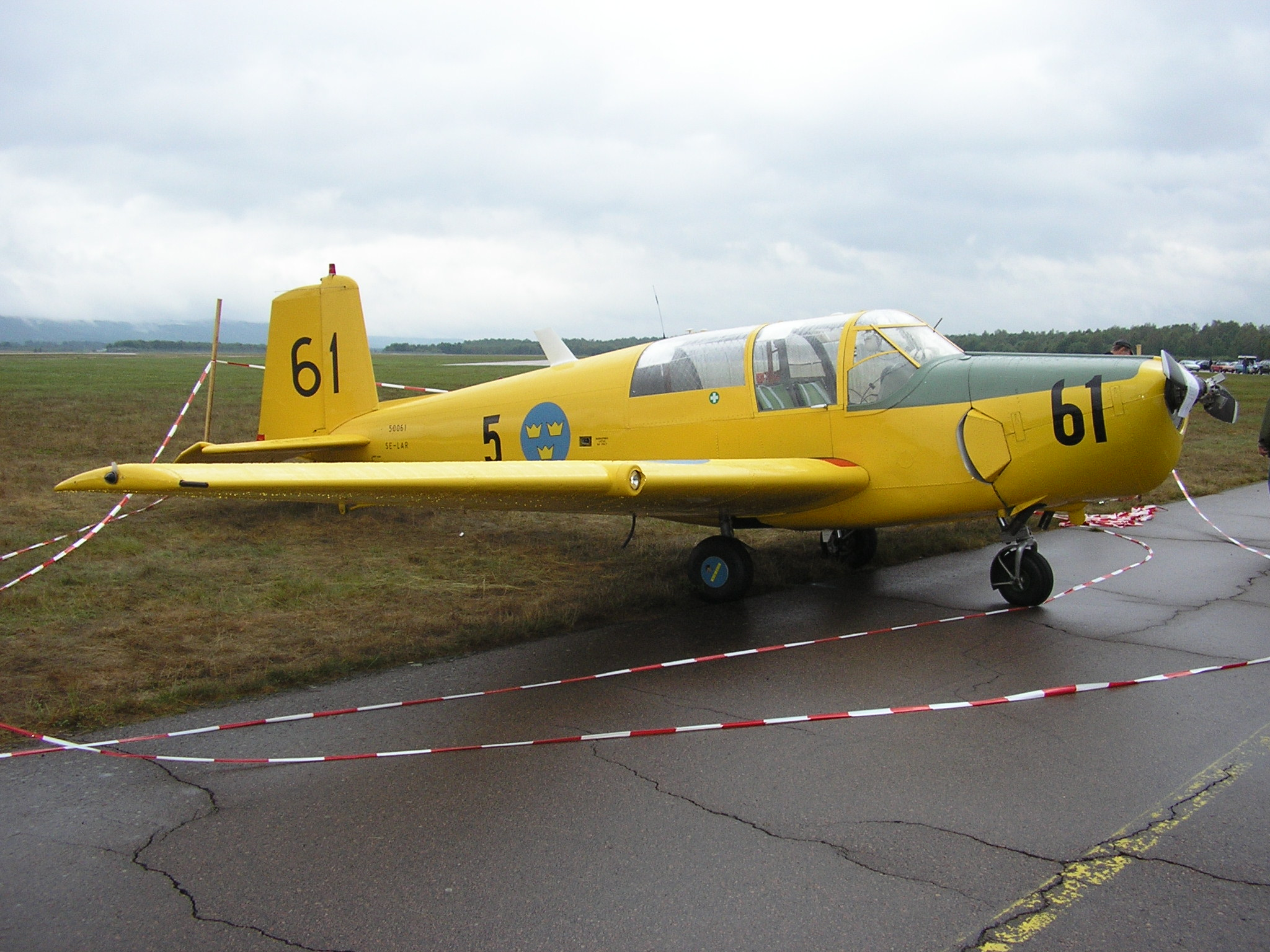 SAAB 91 Safir. Photographed at the International SAAB Club Meeting 2006.